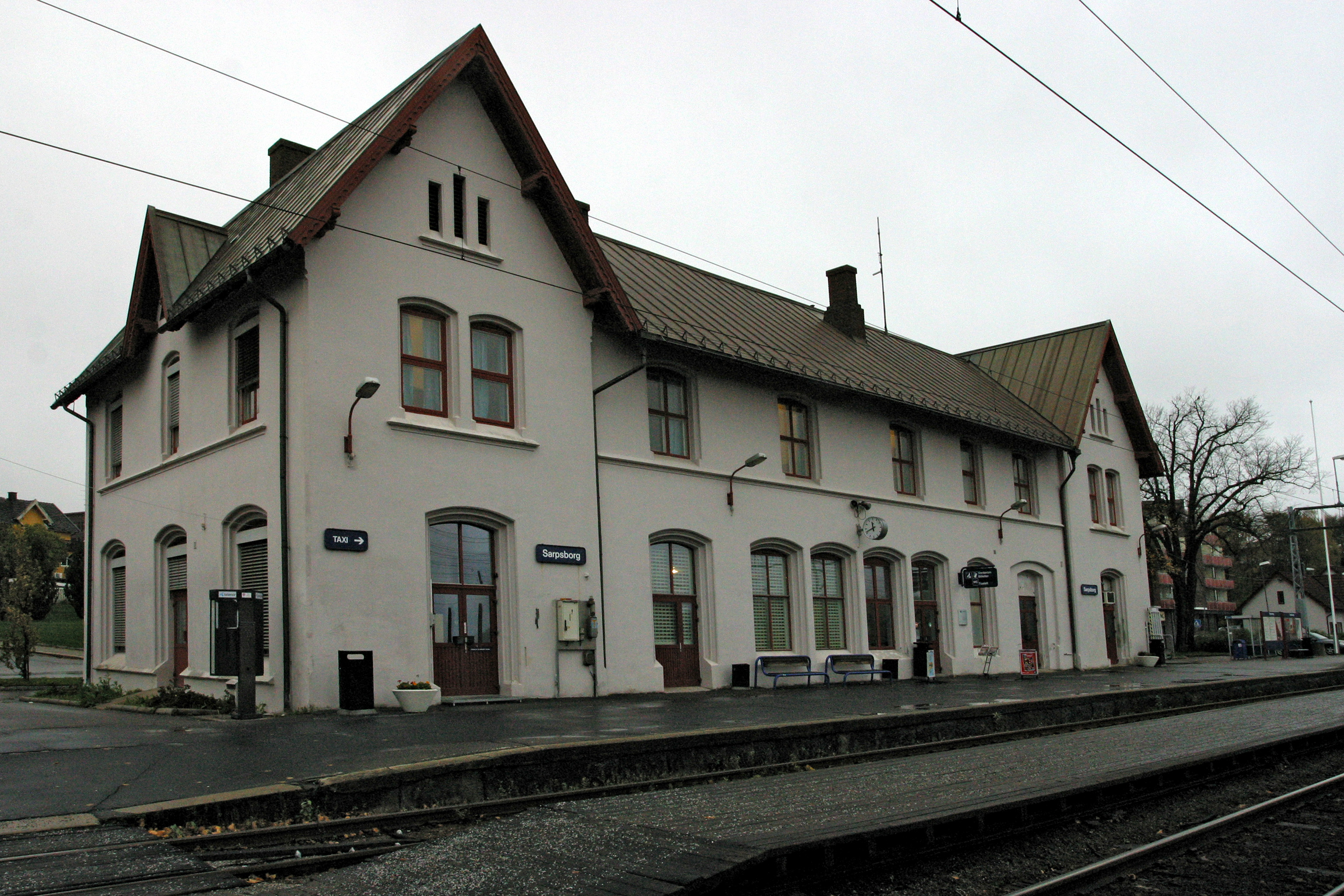 Picture of Sarpsborg Railway Station (Norway)